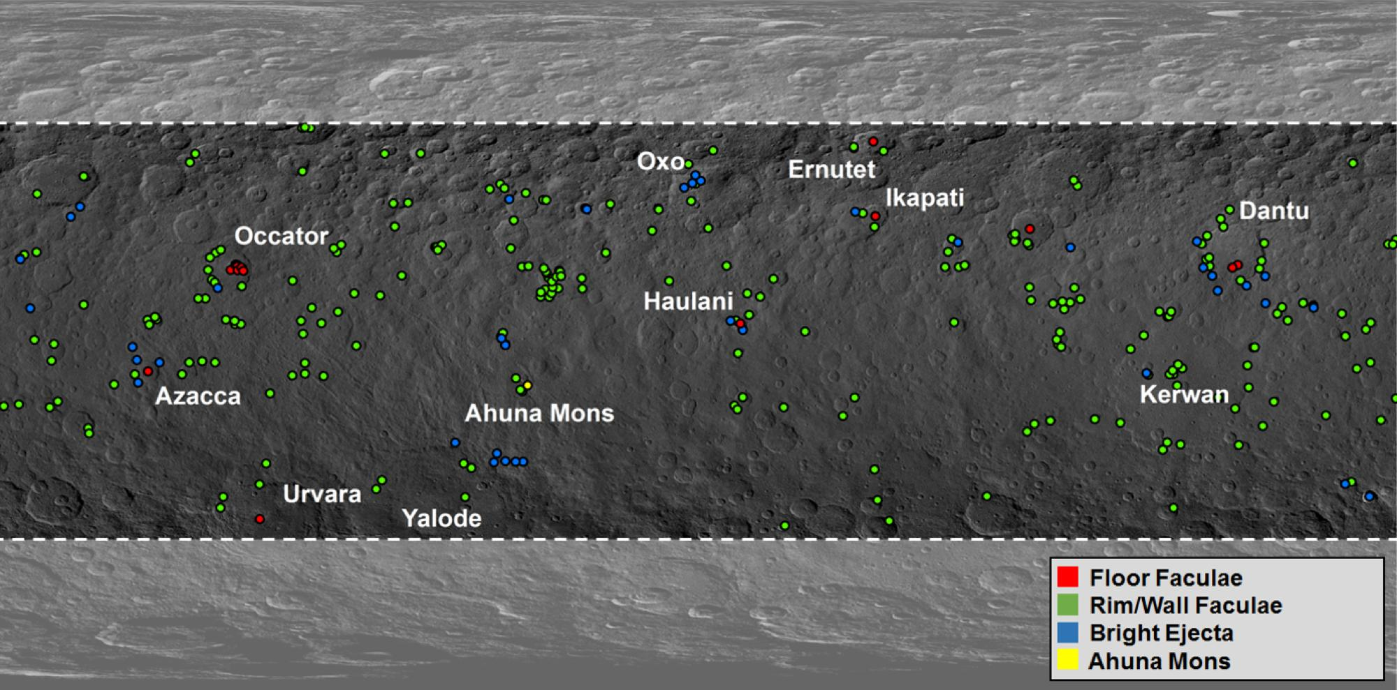 PIA21914: Map of Ceres' Bright Spots This map from NASA's Dawn mission shows locations of bright material on dwarf planet Ceres. There are more than 300 bright areas, called "faculae," on Ceres. Scientists have divided them into four categories: bright areas on the floors of crater (red), on the rims or walls of craters (green), in the ejecta blankets of craters (blue), and on the flanks of the mountain Ahuna Mons (yellow). Dawn's mission is managed by JPL for NASA's Science Mission Directorate in Washington. Dawn is a project of the directorate's Discovery Program, managed by NASA's Marshall Space Flight Center in Huntsville, Alabama. UCLA is responsible for overall Dawn mission science. Orbital ATK Inc., in Dulles, Virginia, designed and built the spacecraft. The German Aerospace Center, Max Planck Institute for Solar System Research, Italian Space Agency and Italian National Astrophysical Institute are international partners on the mission team. For a complete list of Dawn mission participants, visit For more information about the Dawn mission, visit